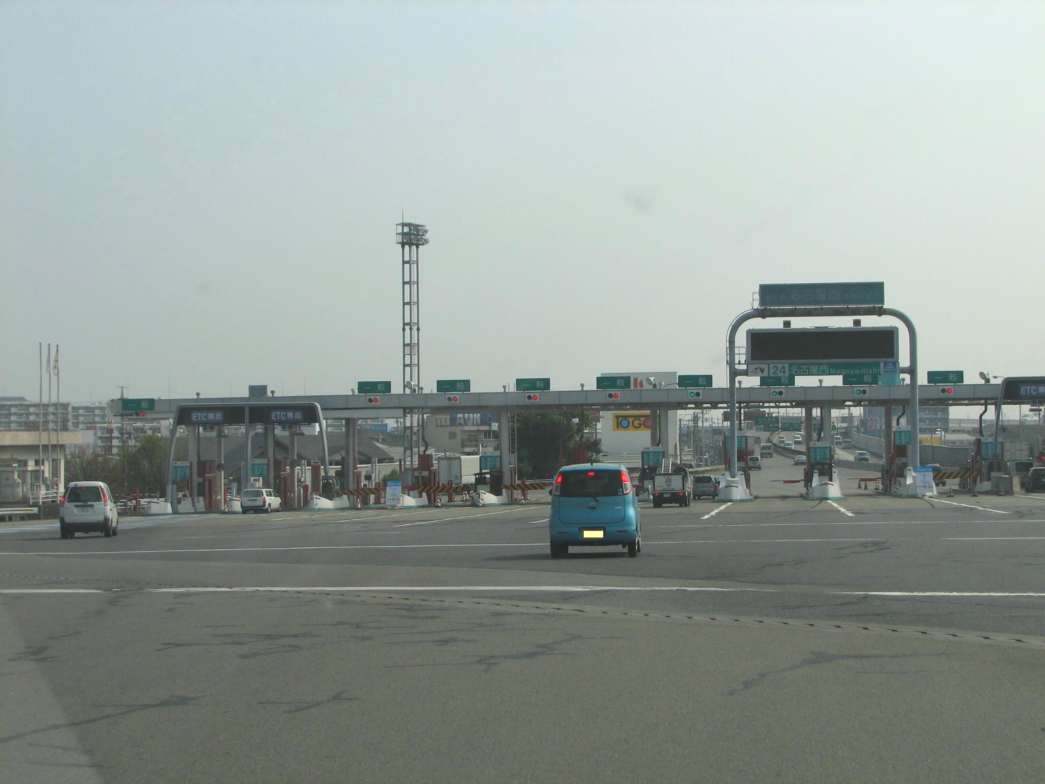 Nagoya-nishi Tollgate (For Tōmei)